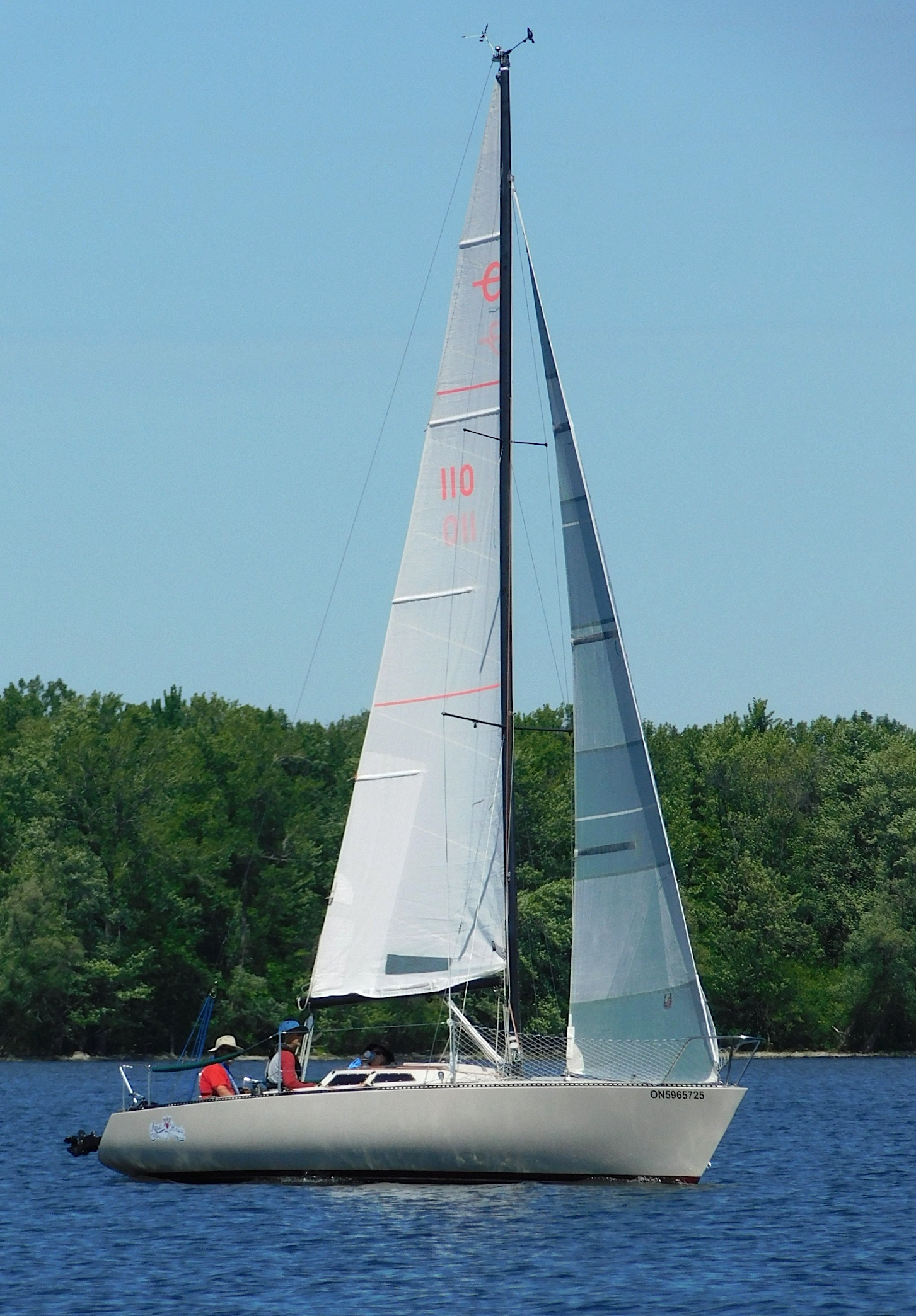 An Express 27 sailboat named Aqua-Pensee.